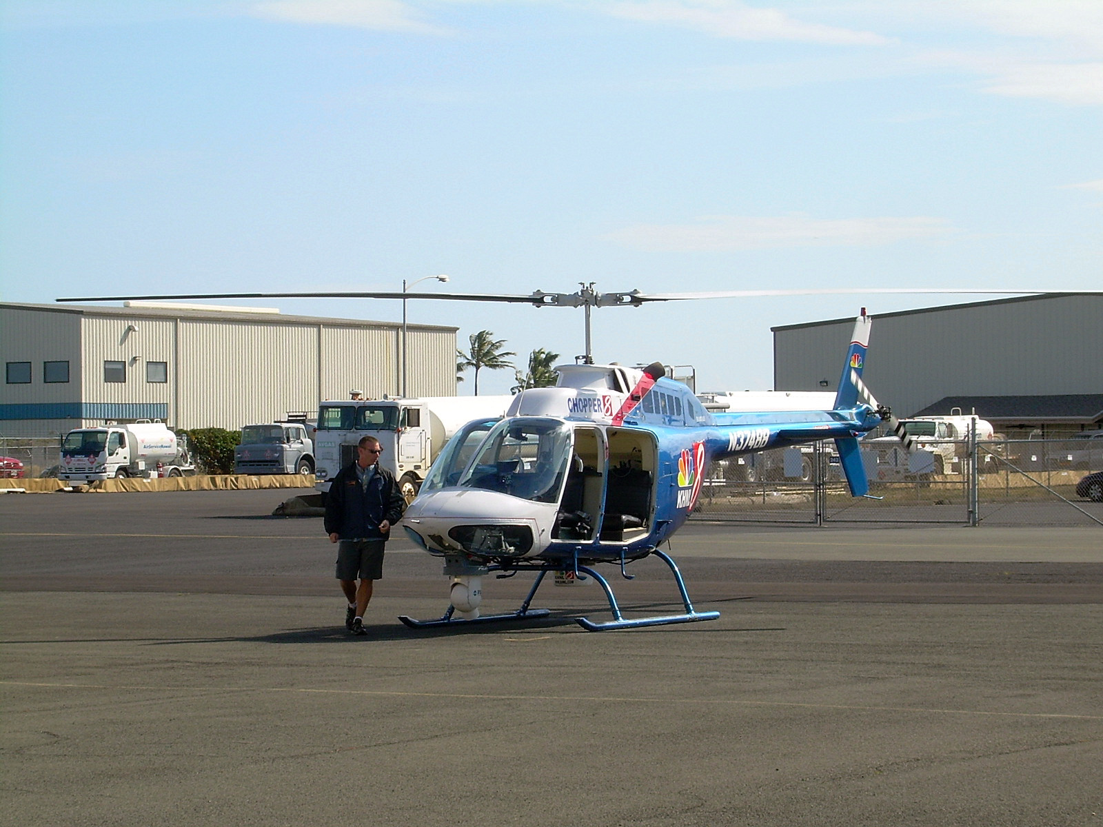 The helicopter I was inside to take these photos - Oahu photos. Helicopter tour provided by Genesis Aviation.